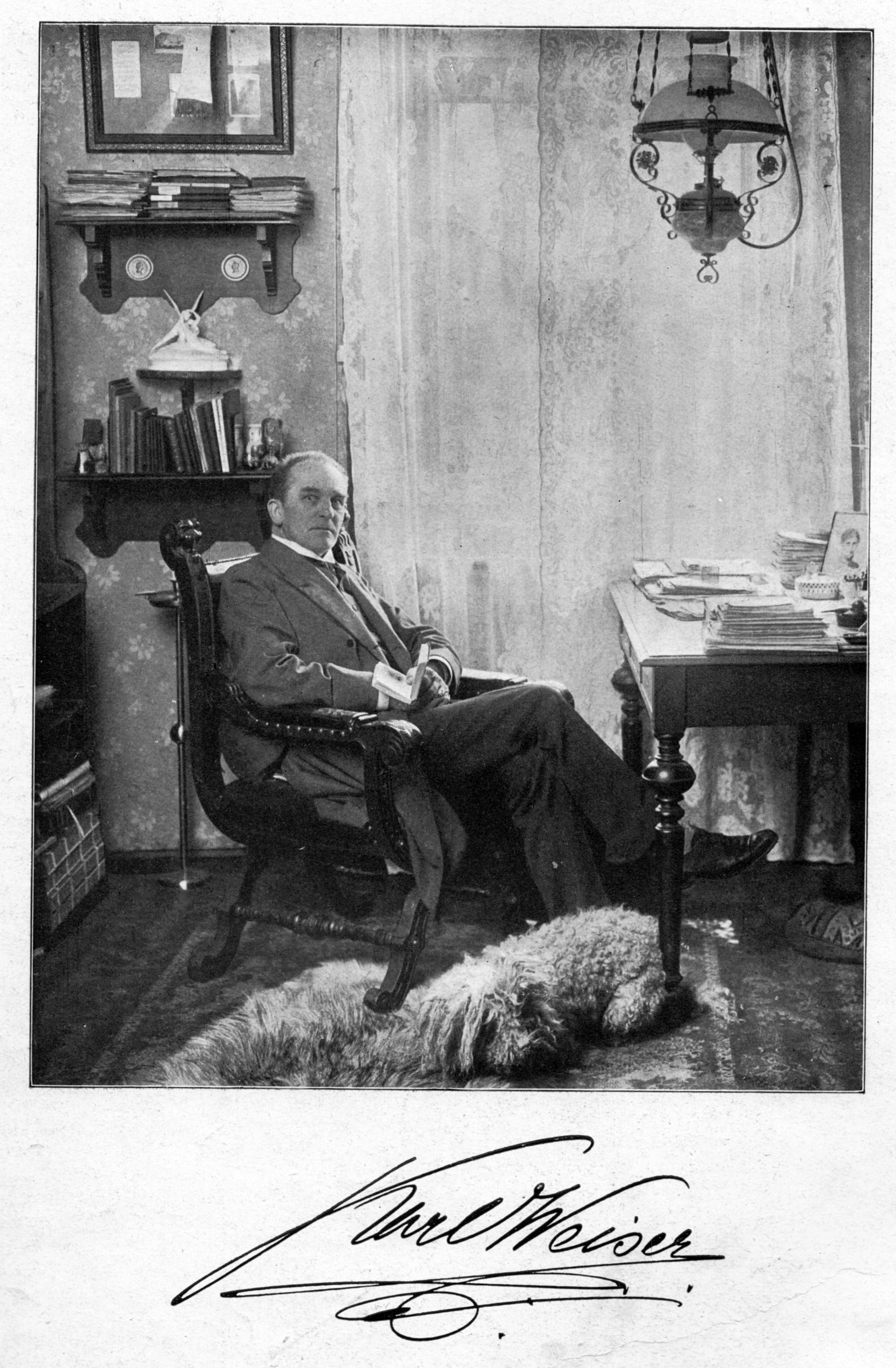 Karl Weiser, German actor and writer.